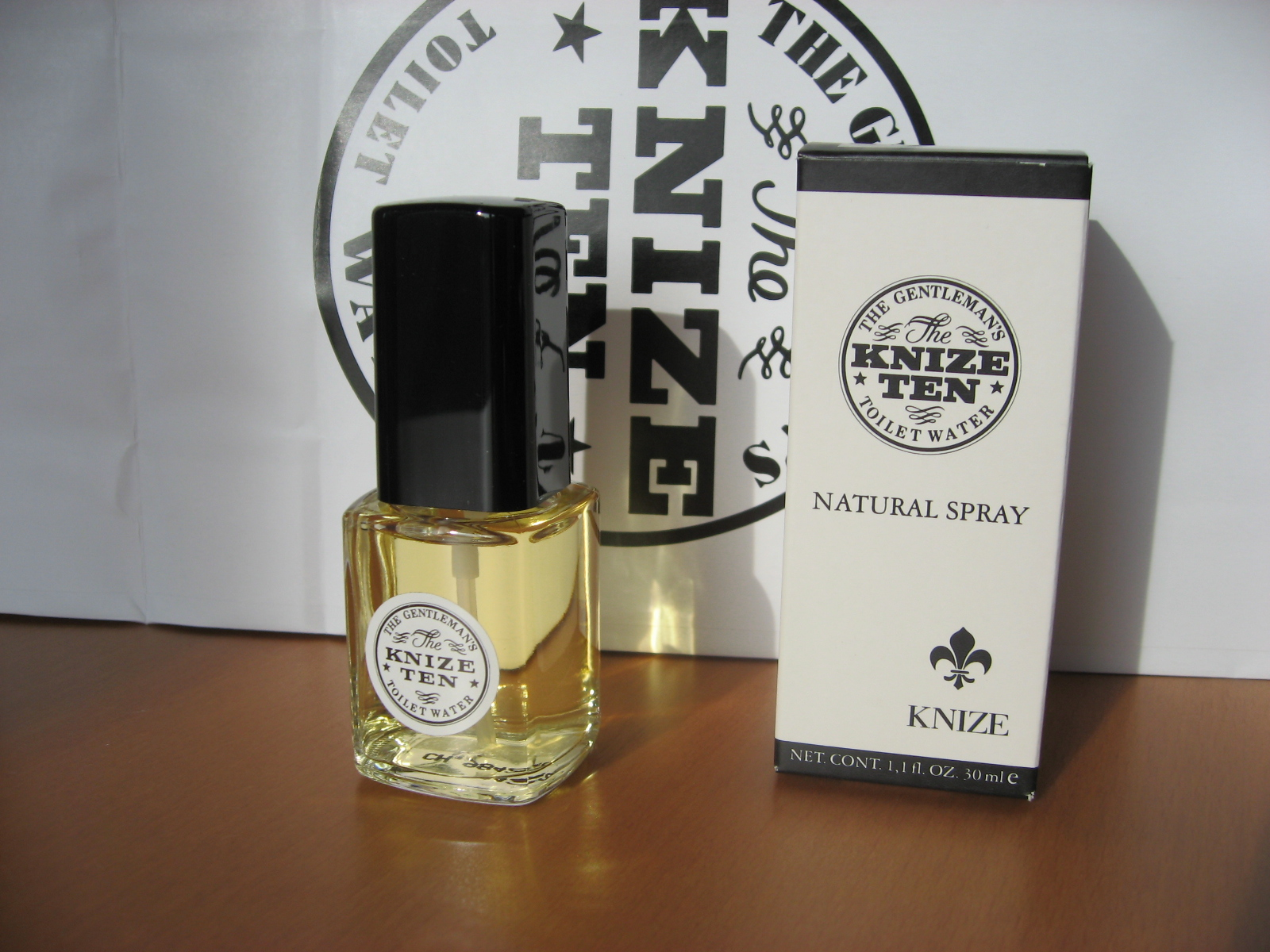 Knize ten perfume